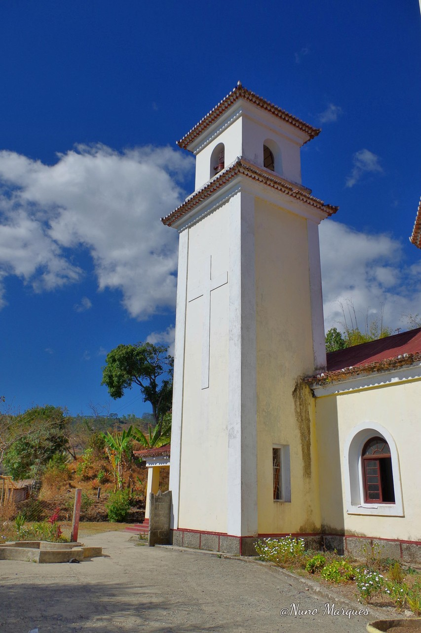 Tower, Ermera, Timor-Leste Church tower